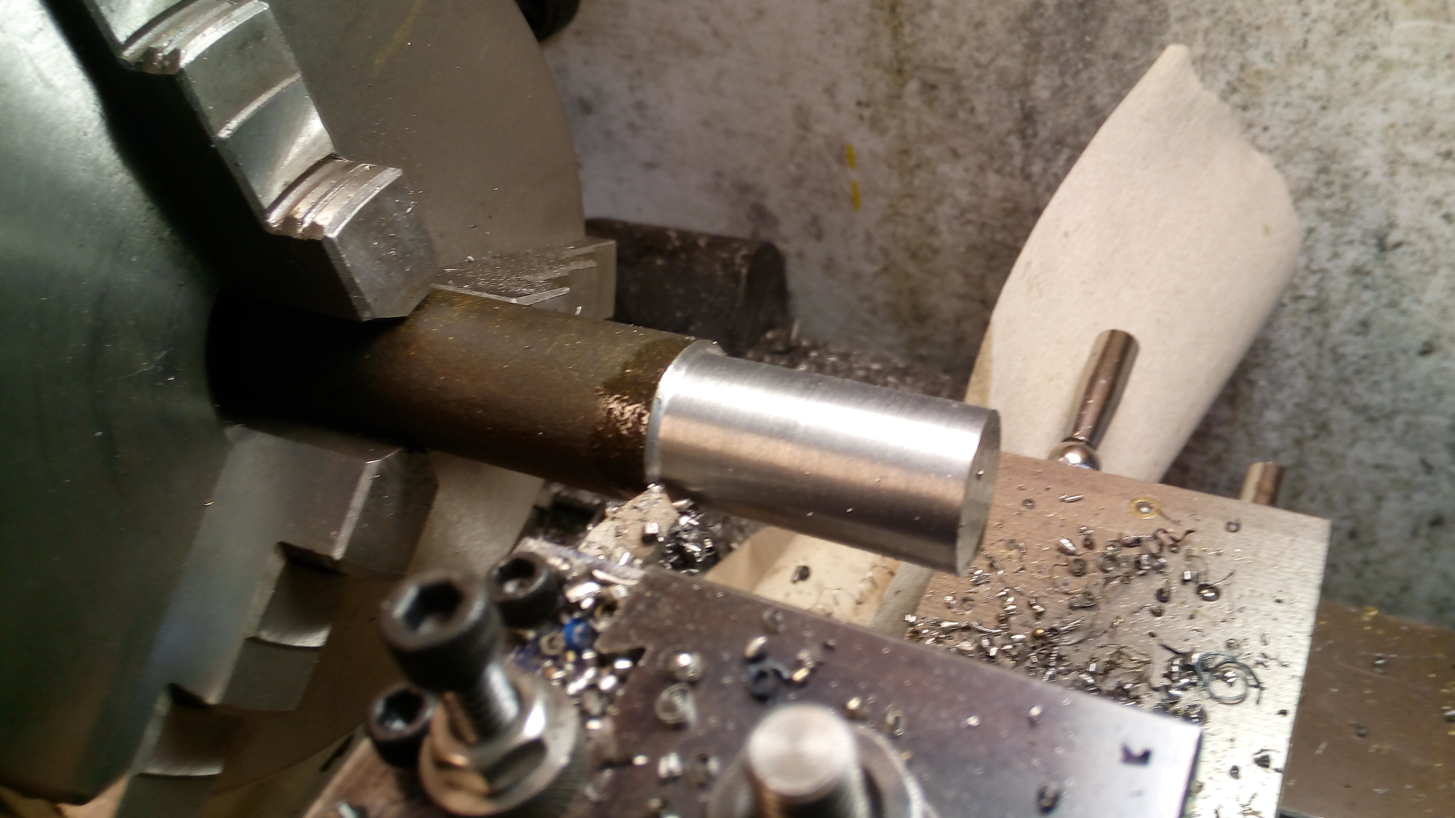 Example of work mounted in a 3-jaw lathe chuck.